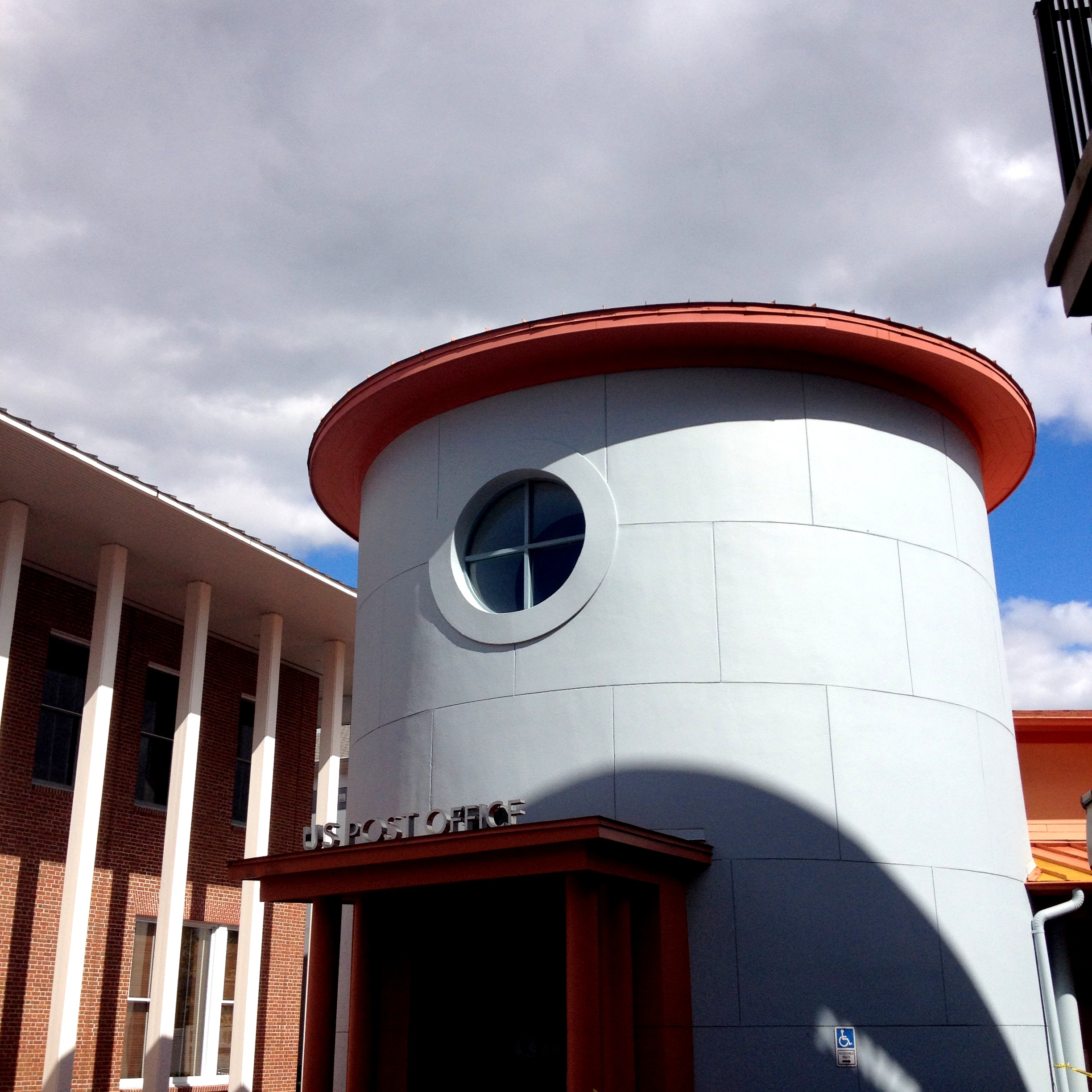 celebration post office